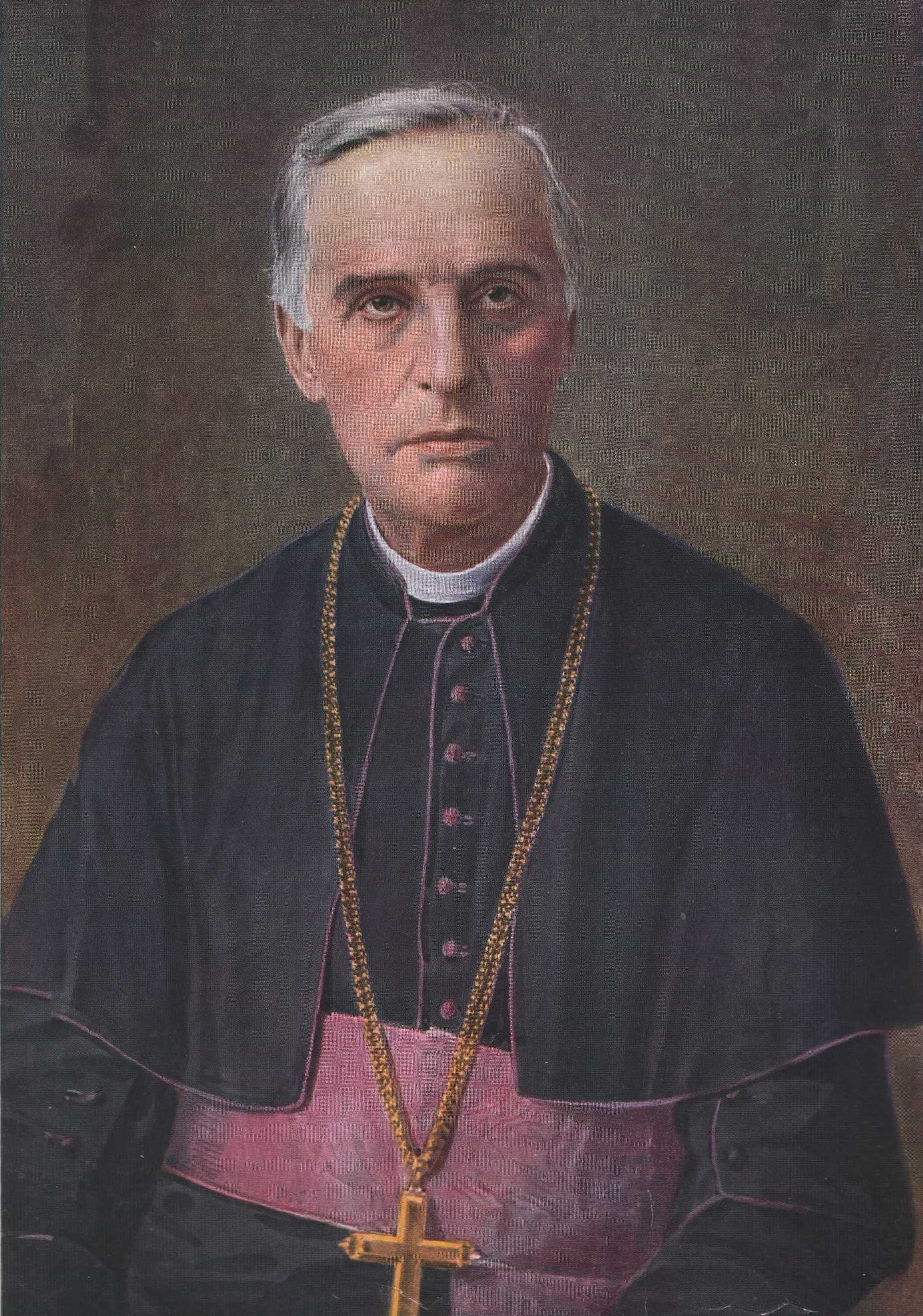 Portrait of bishop Anton Mahnič (1850-1920), stamped in his printing-house Kurykta in Krk, Austria-Hungary, now Croatia